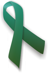 Jade green ribbon in silk